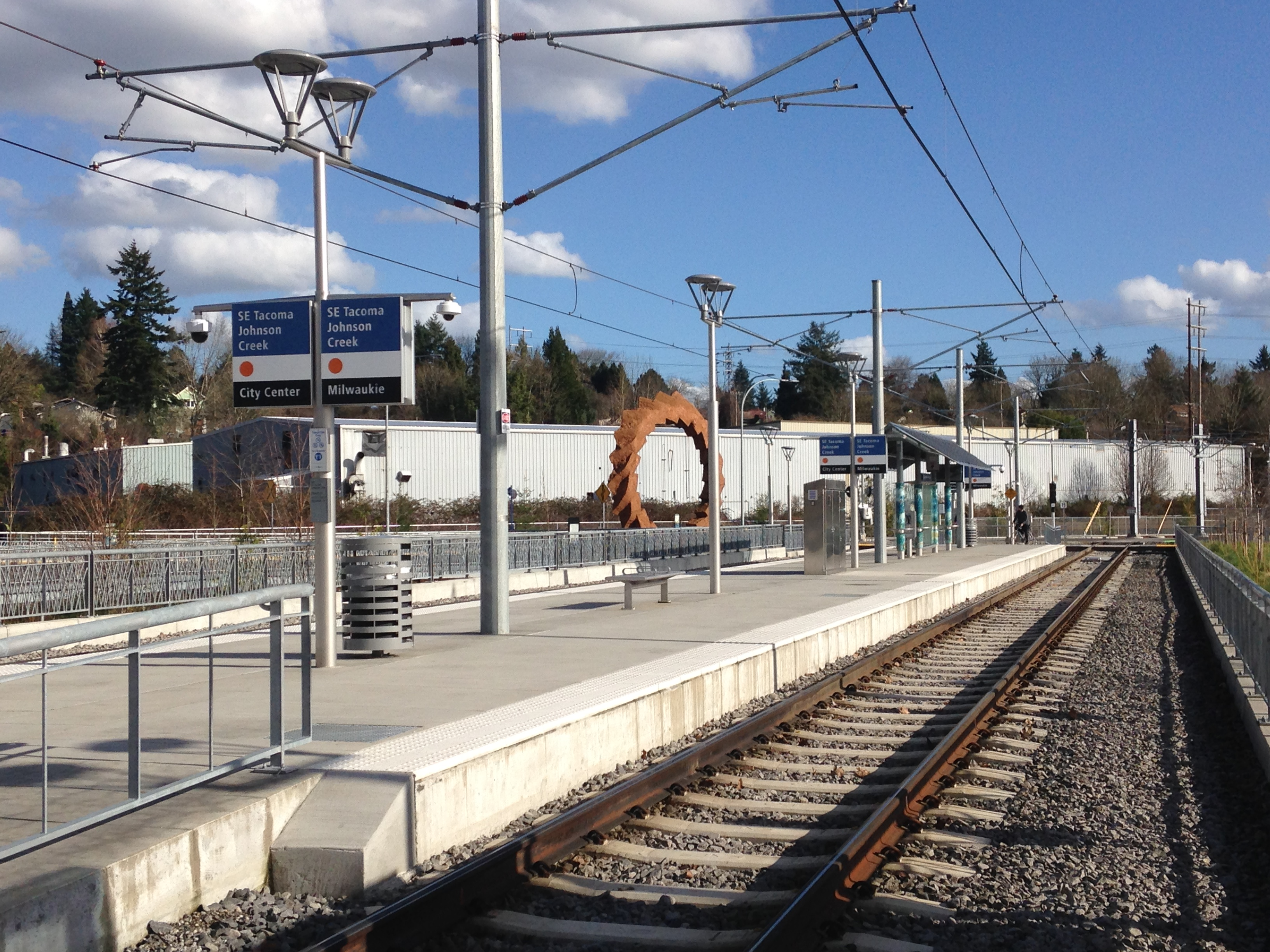 The SE Tacoma Avenue & Johnson Creek MAX station, on the MAX Orange Line.